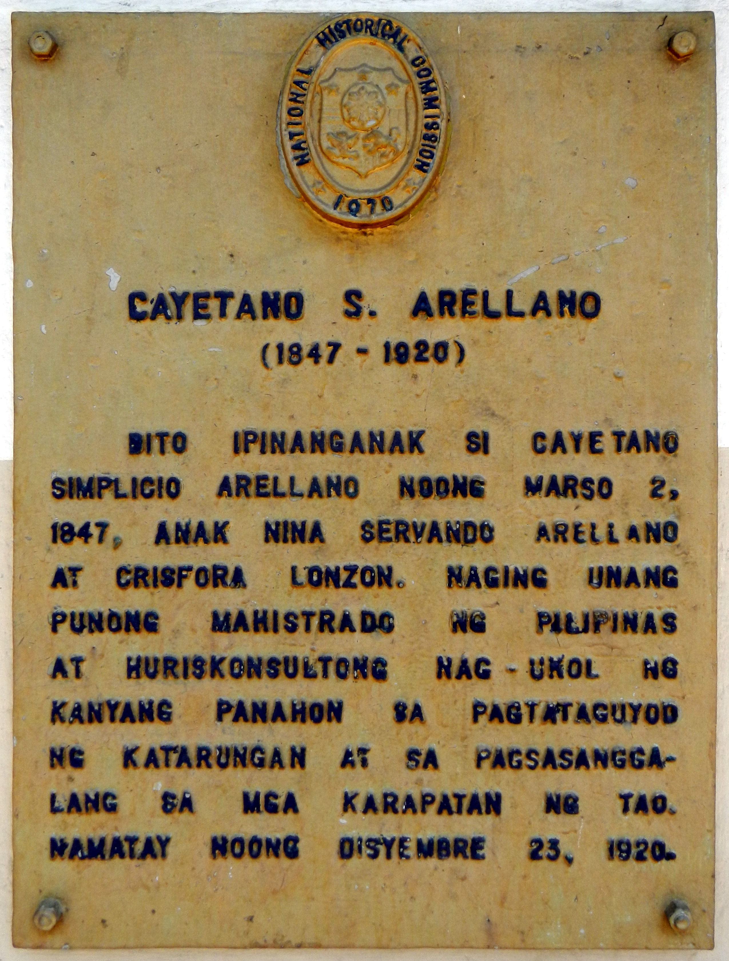 National Historical Commission historical marker for Cayetano Arellano.